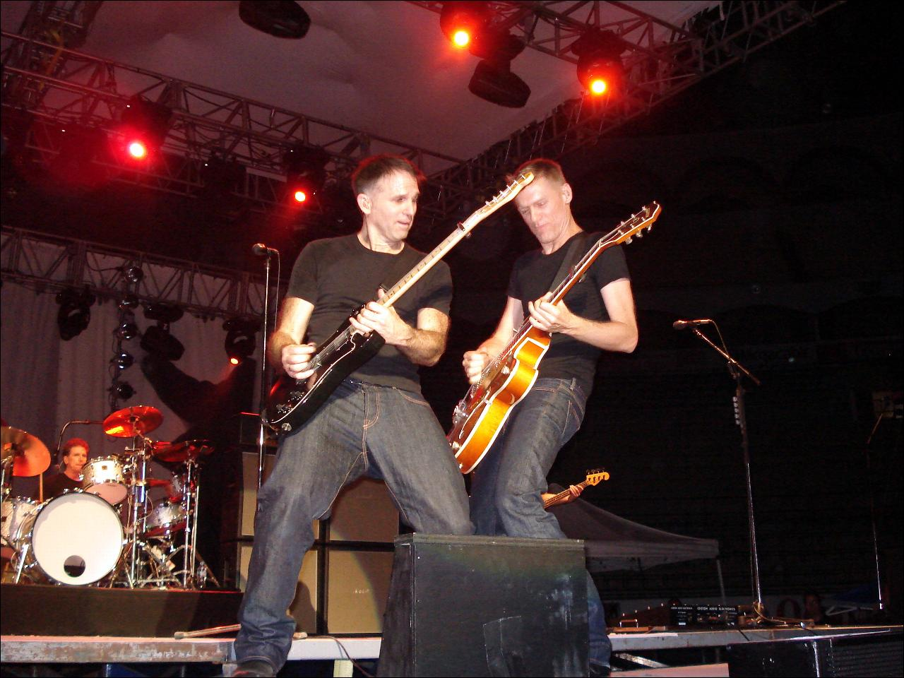 Bryan Adams live in Guadalajara, Mexico, on October 27, 2006